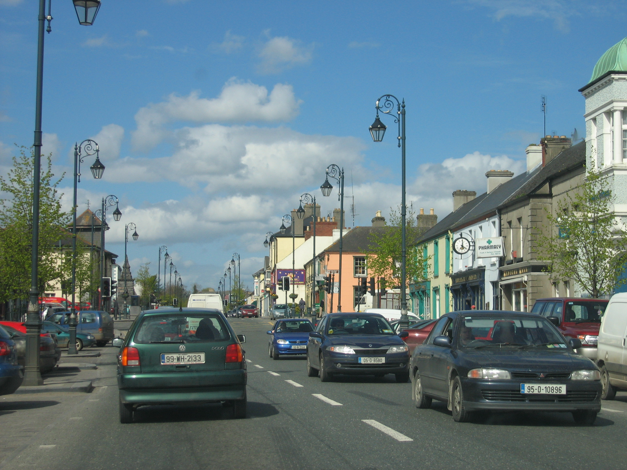 Main Street, Abbeyleix